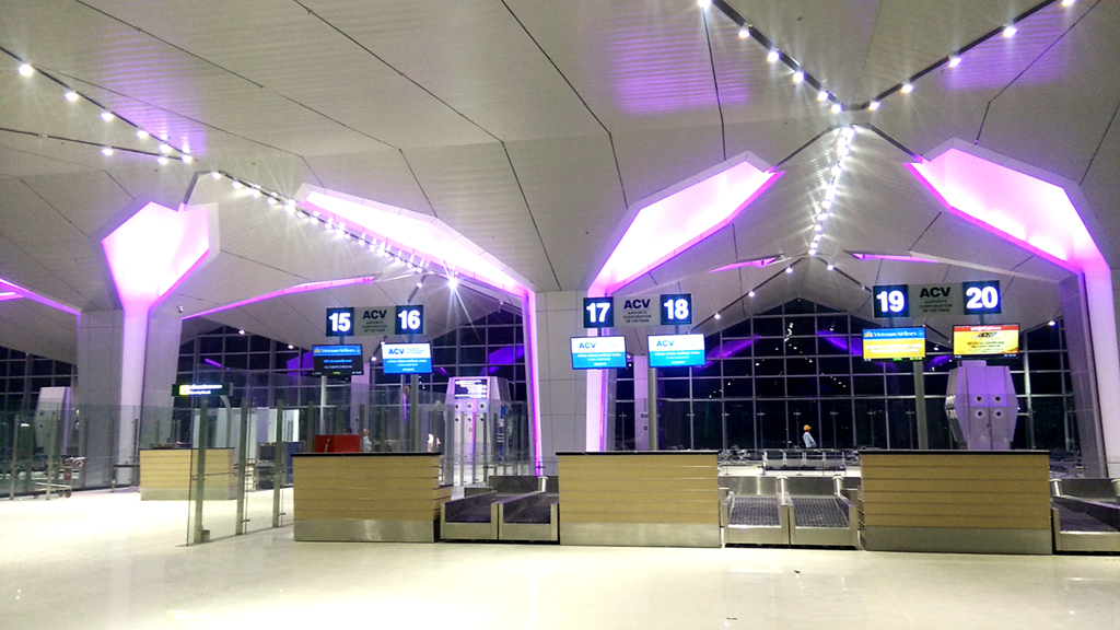 Vinh Airport Check-in Counter